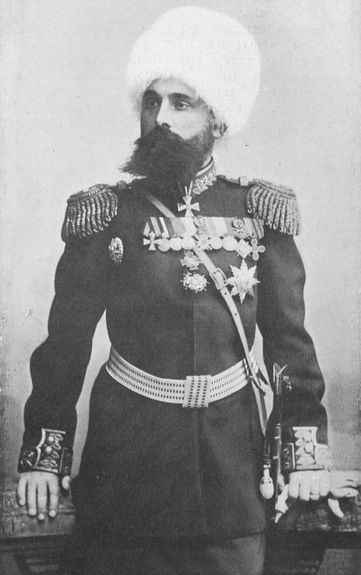 Subbotich, Deyan Ivanovich